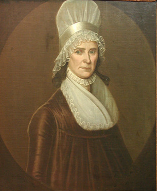 Artist: William Jennys, American, active 1795-1806 Subject: Frances Ogden Edwards, American, 1750–1800 Mrs. Pierpont Edwards (Frances Ogden) (1750–1800) ca. 1795 Oil on canvas 30 × 25 1/8 in. (76.2 × 63.8 cm) Gift of the estate of Geraldine Woolsey Carmalt 1968.30.5 Status: Not on view Culture: American Period: 18th century Classification: Paintings